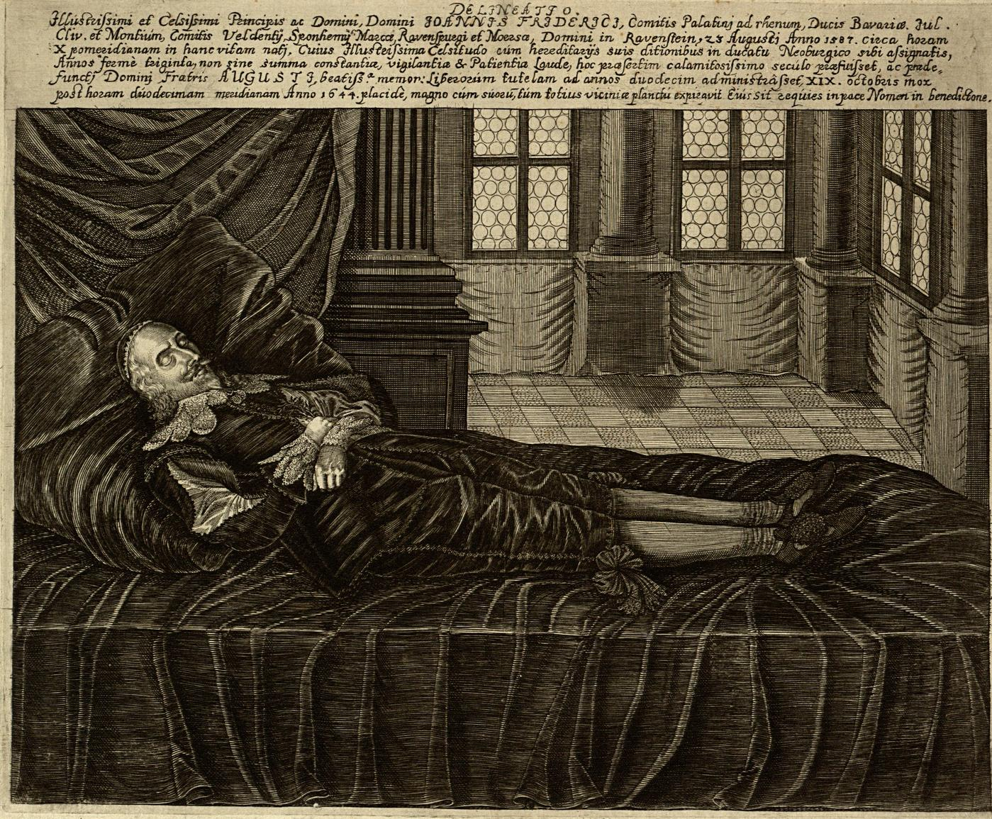 Johann Friedrich, Count Palatine of Sulzbach-Hilpoltstein (1587-1644) Lying on his Deathbed